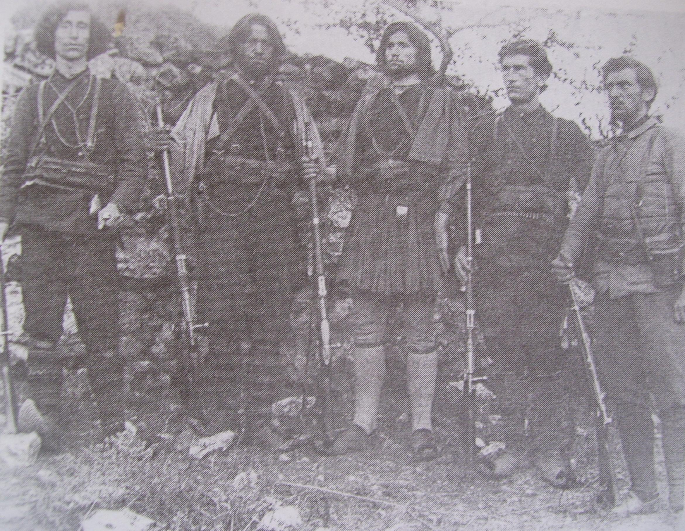 IMARO band of Atanas Karshakov in the village of Dambeni (today Dendrohori, Greece).